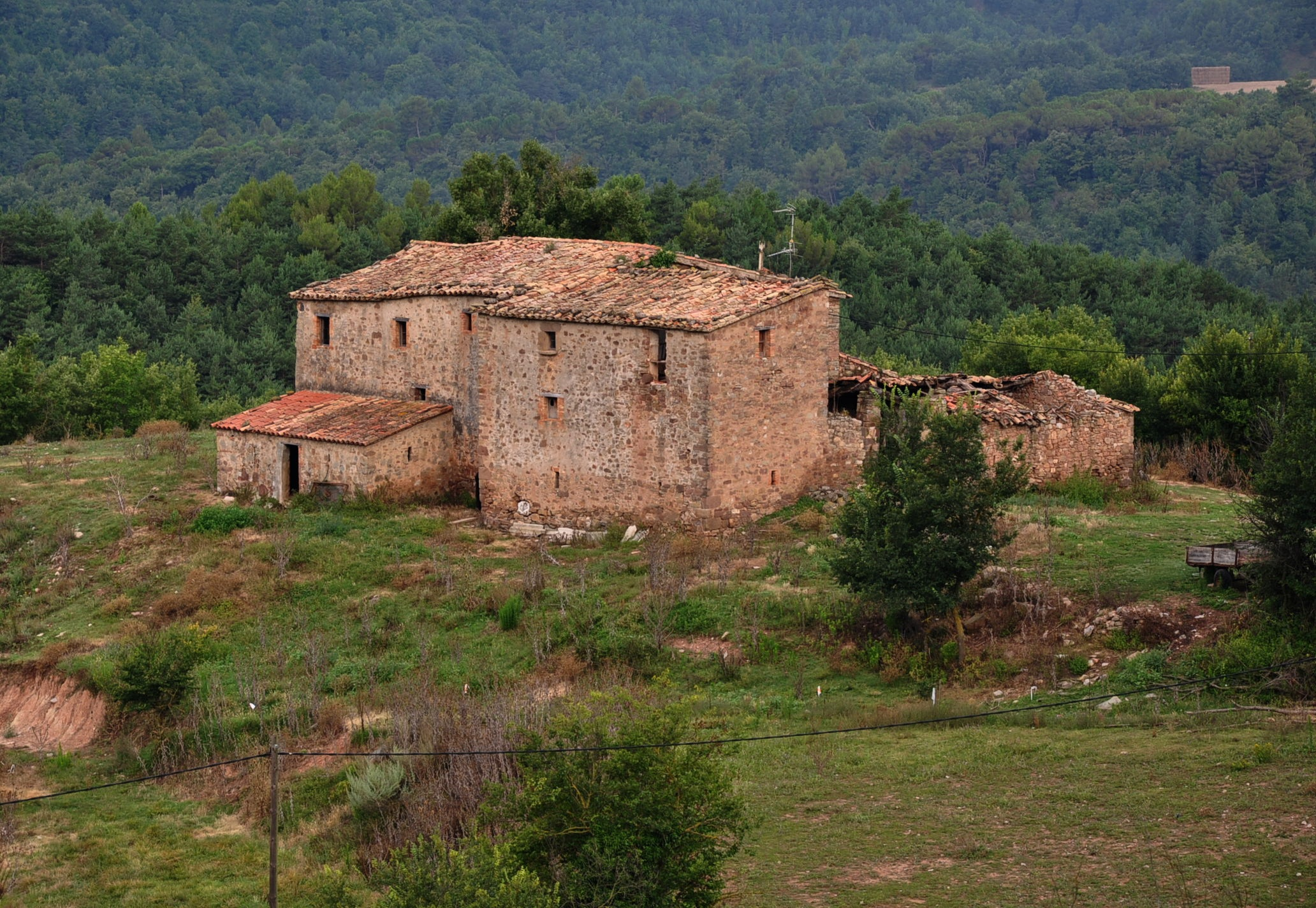 Vilardell farm in the municipality of Muntanyola (comarca/district Osona, Catalonia, Spain). Altitude 723 m. Location 41°53'14.69" N, 2°11'2.38" E.